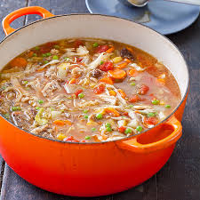 Booyah Spiced with vegetables